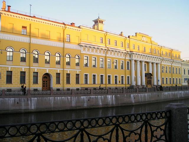 Saint Petersburg (Russia), Moika Palace or Yusupov Palace.